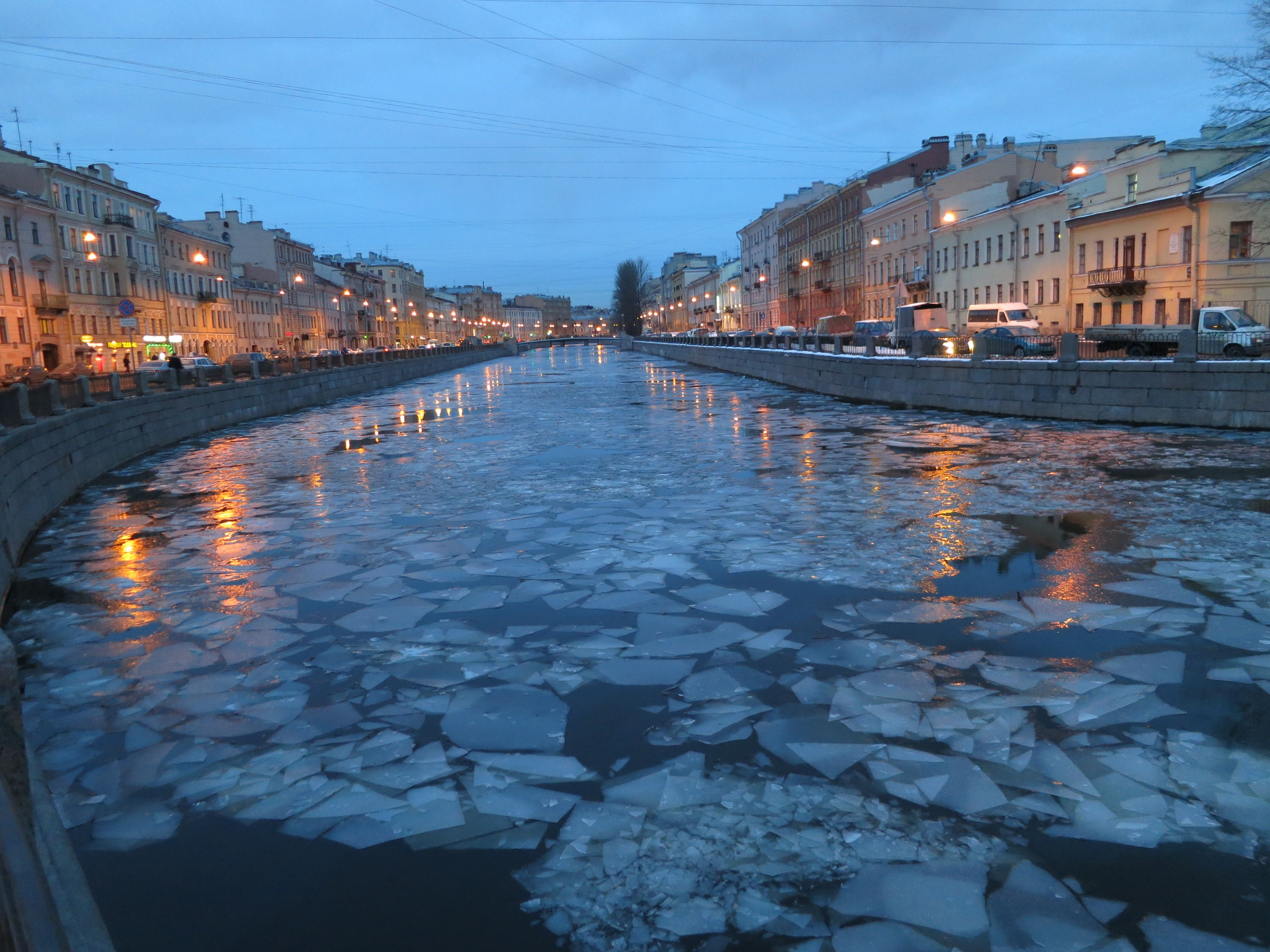 Saint Petersburg